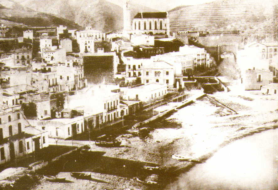 Catalunya, Alt Empurda, Portbou on 1890.